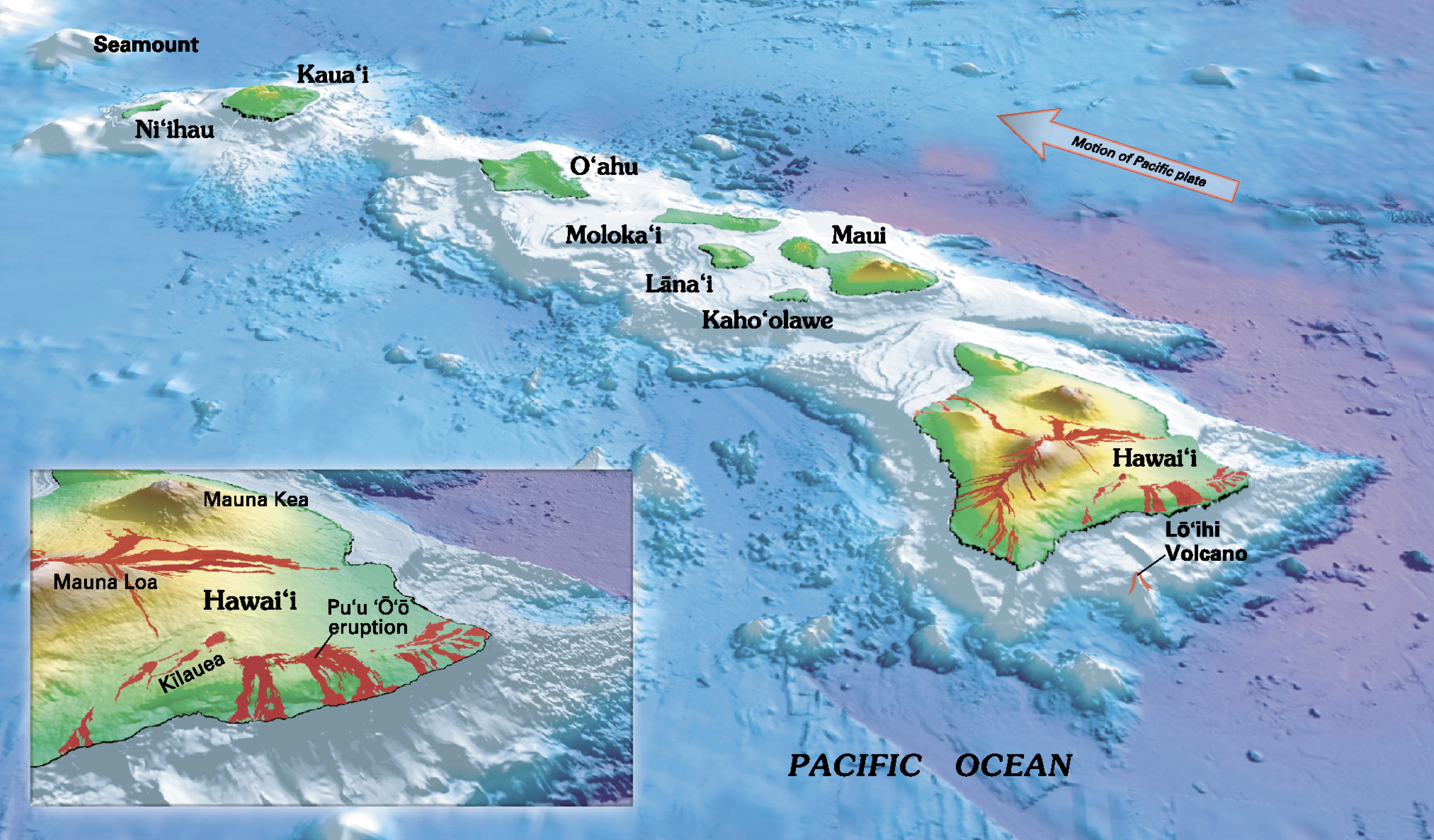 Oblique view of the southeastern Hawaiian islands, showing bathymetry and recent lava flows.